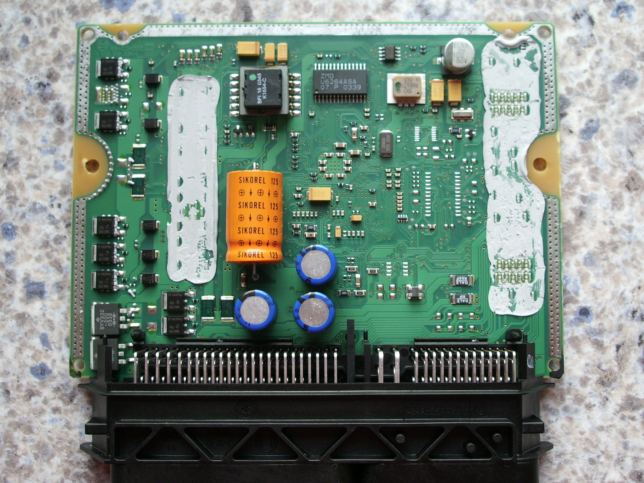 Electronic Diesel Control ECU Common Rail System, view on actuator and power unit